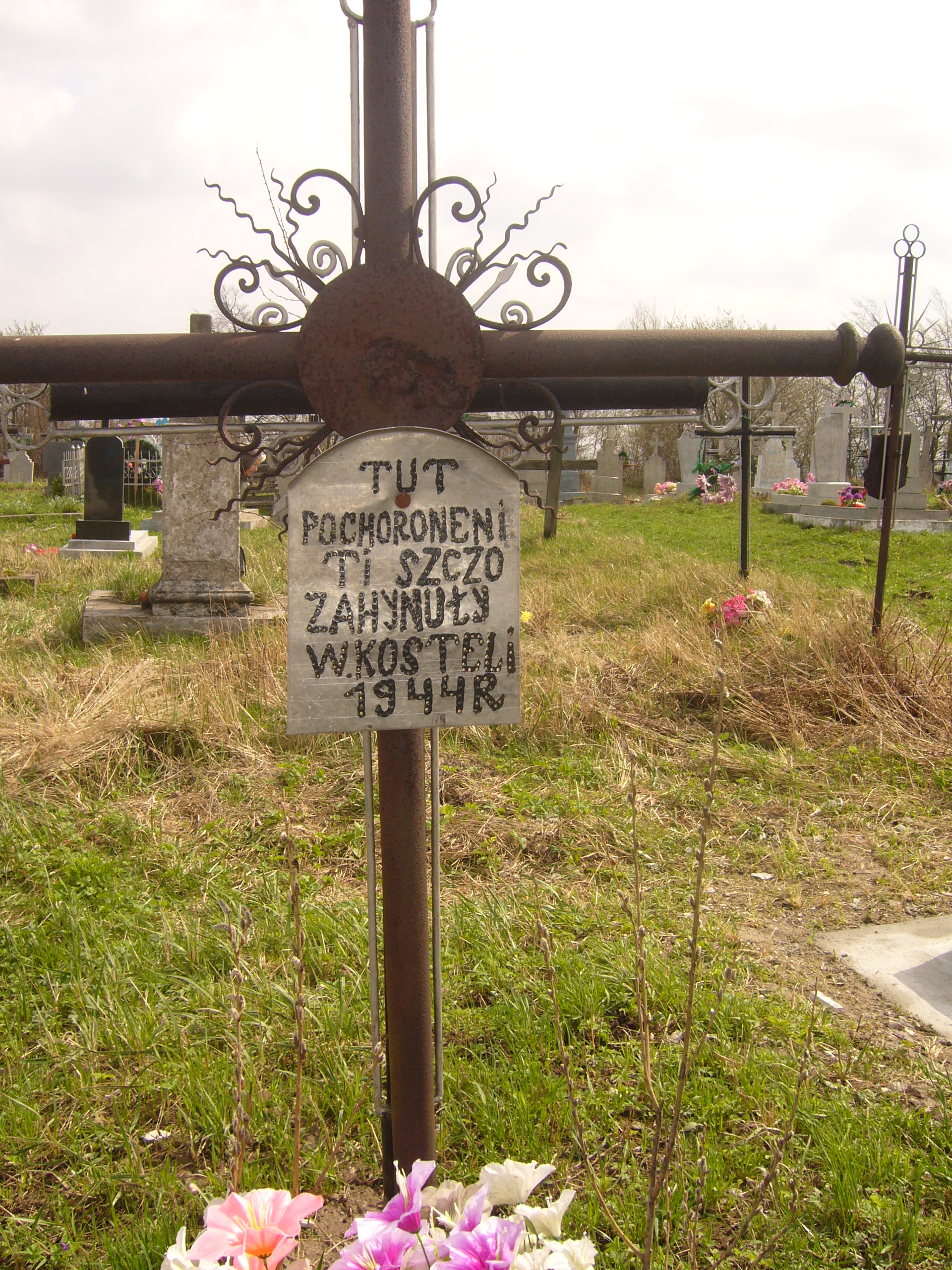 Polish graveyard in Podkamien